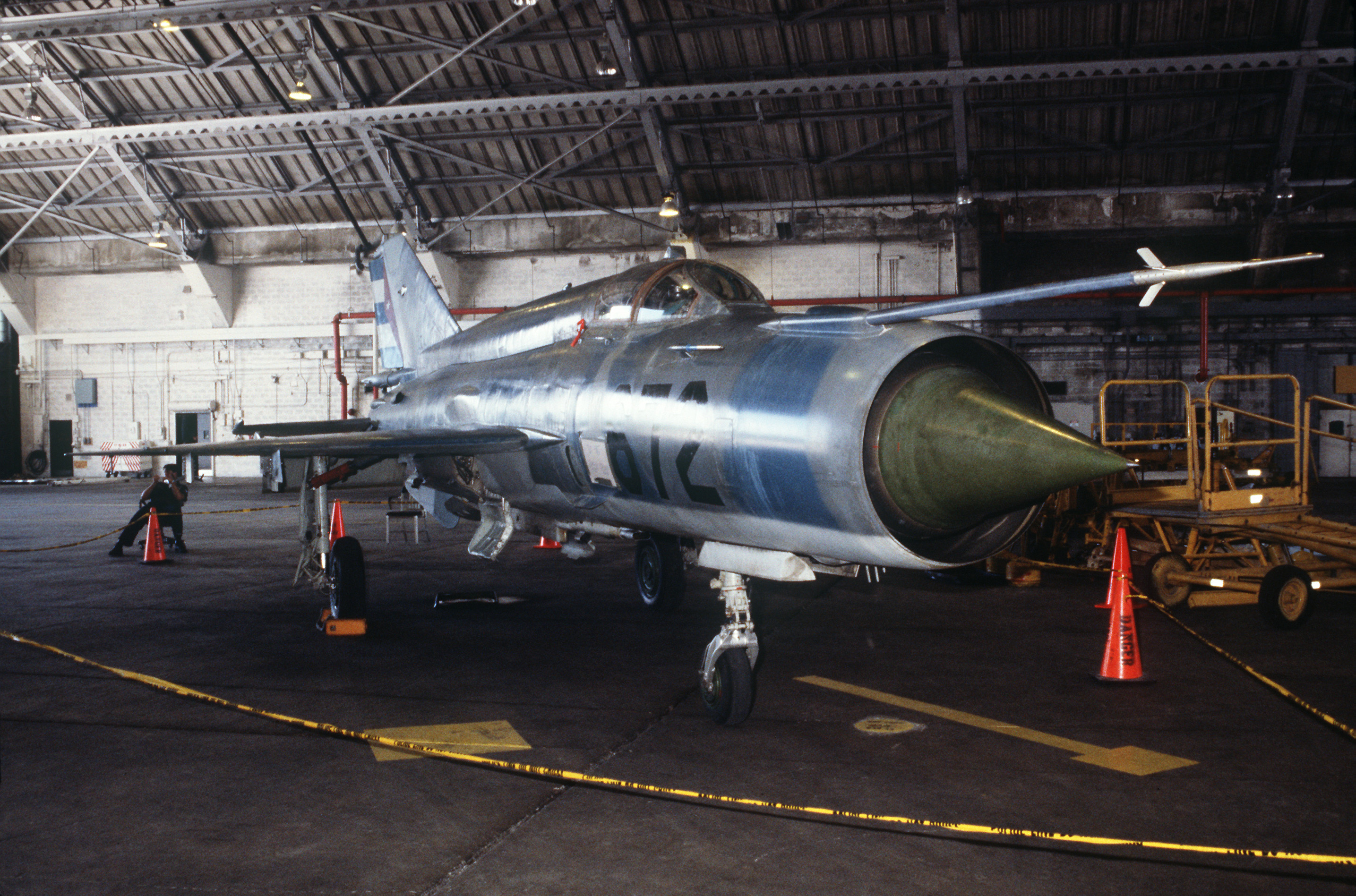 A front right side view of a Cuban MiG-21 fighter aircraft inside VF-45 hangar. It was flown to Key West on September 16, 1993 by a defecting Cuban pilot, FLORIDA (FL) UNITED STATES OF AMERICA (USA)